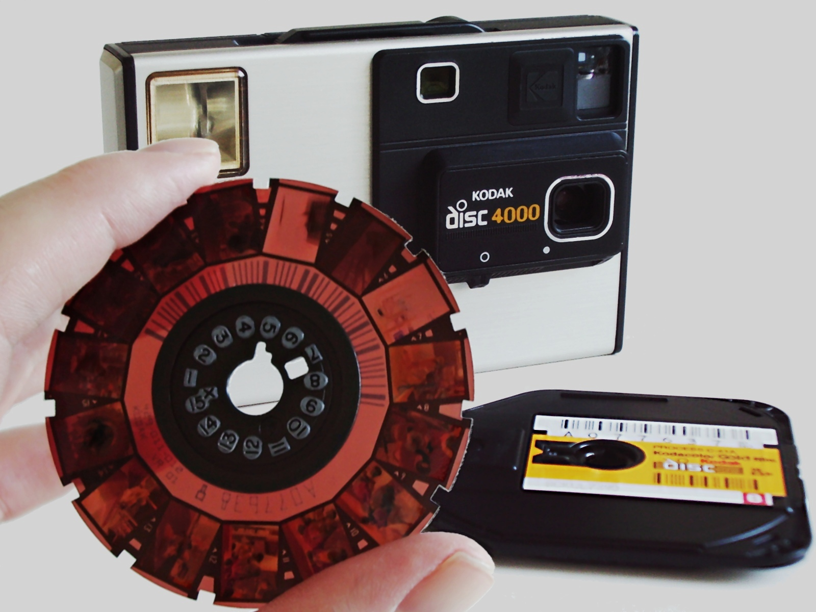 Camera Kodak Disc 4000 with disc film negative.